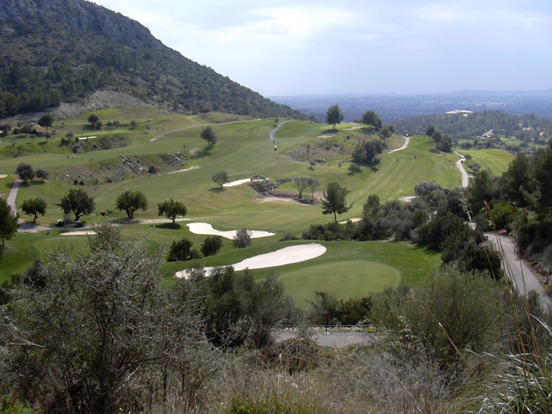 Several Holes of the Golf Course Son Termens